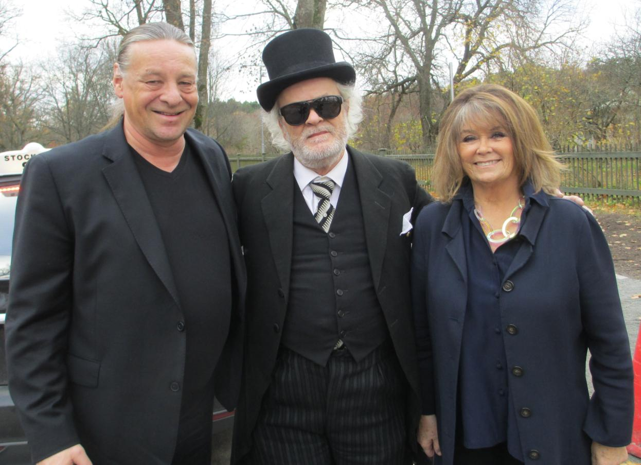 Anders Eljas, Lars Jacob & Wenche Myhre arrive for Kjerstin Dellert's 90th birthday party at her theaterPlace: Confidencen, Ulriksdal, Solna, Sweden